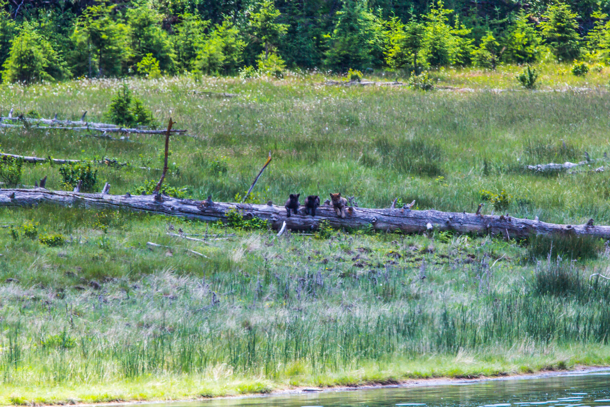 at Sedge Lake (1001m) near Savona...Wolf cubs, waiting for mom to call them back in the bush...after she told them to sit tight!